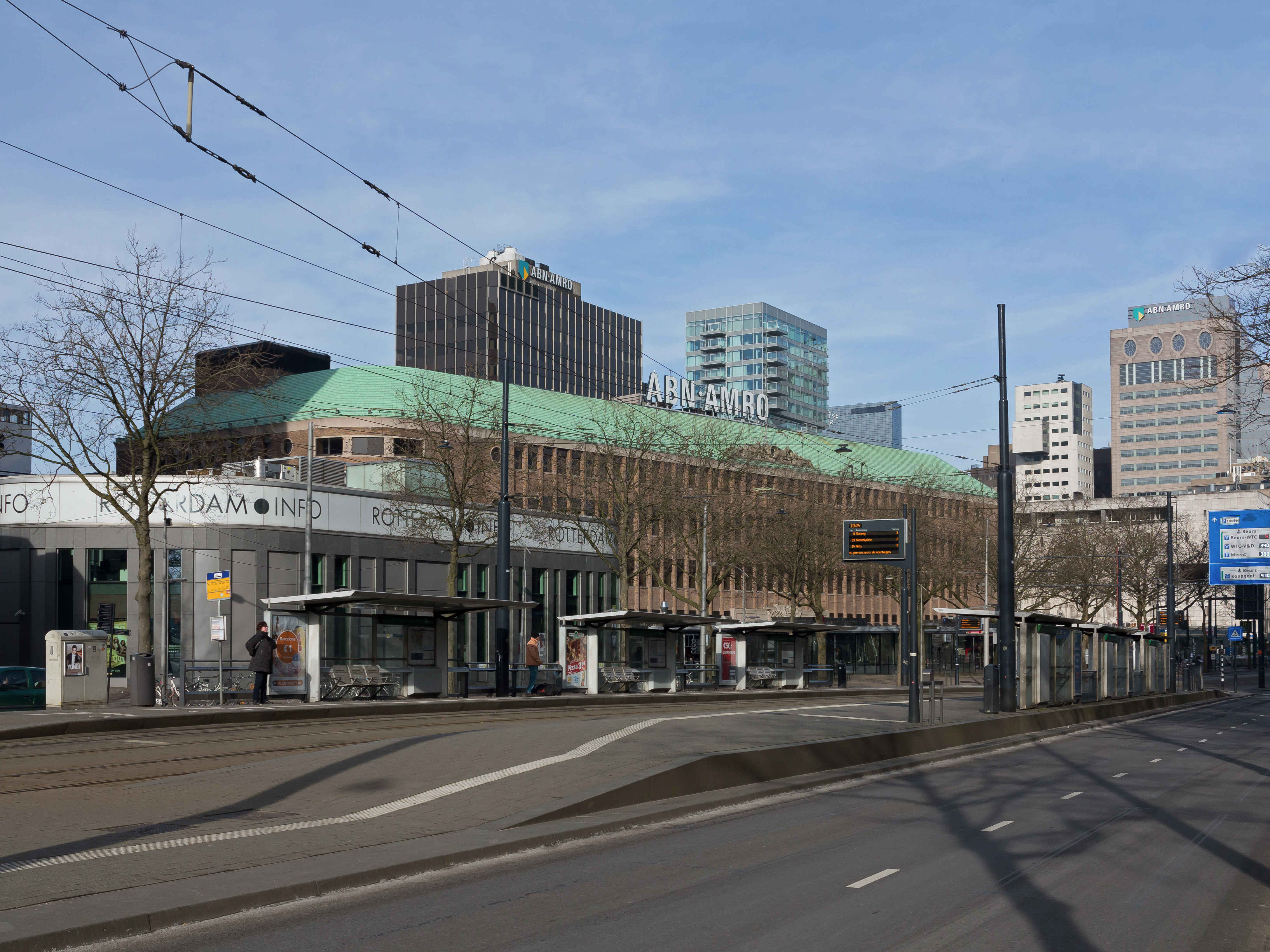 Rotterdam, former building of the Rotterdamsche Bank at the Coolsingel (now ABN Amrobank)